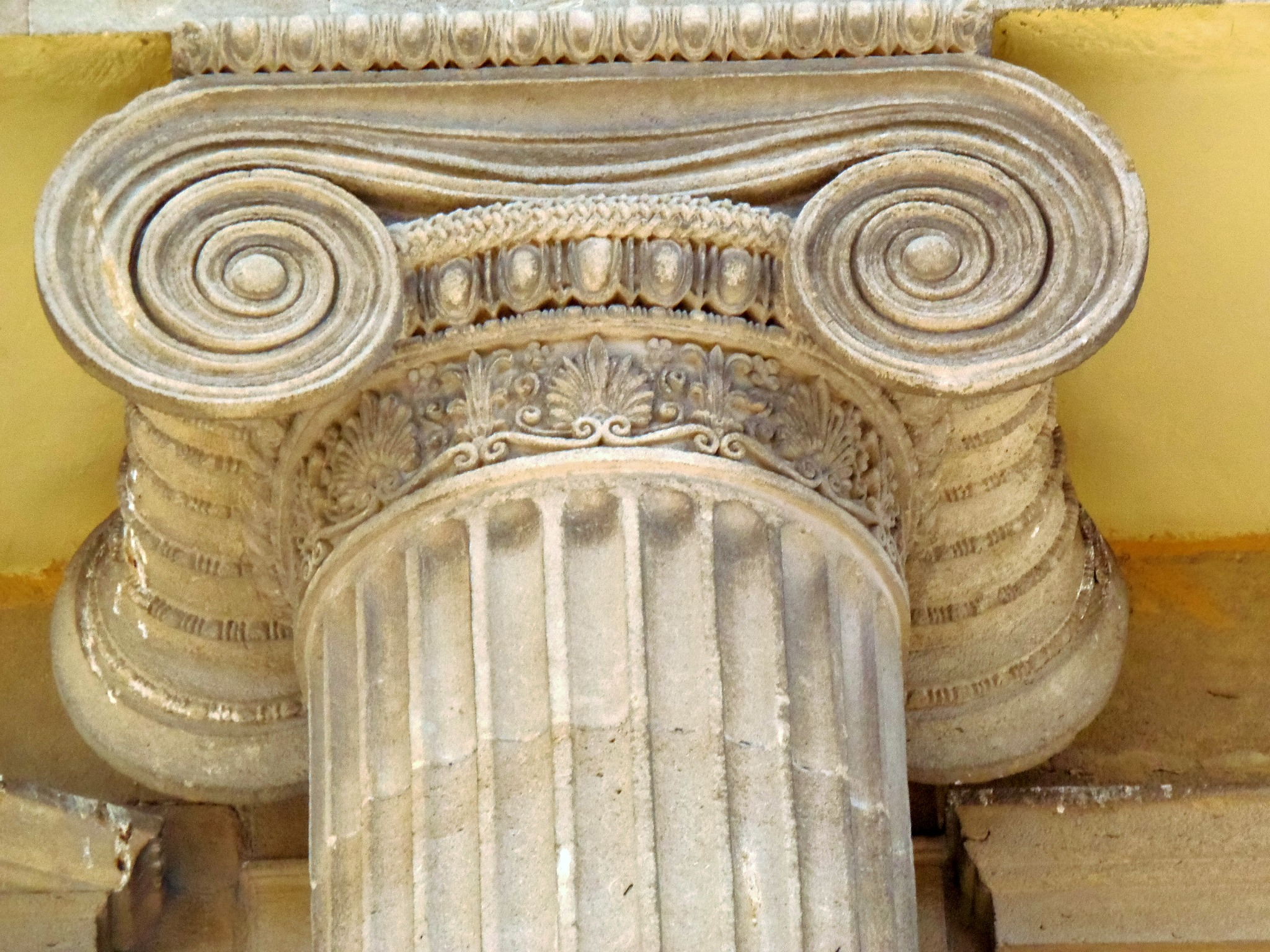 Capital of a column in Pancyprian Gymnasium in the Old City of Nicosia, Cyprus Republic